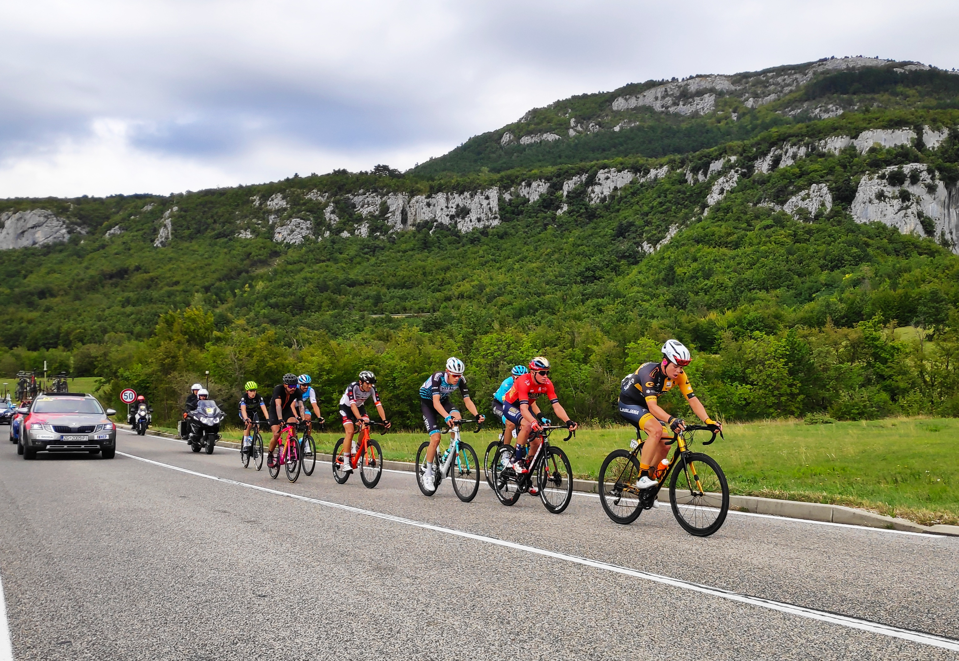 CRO Race 2019, Stage 5, acent to Učka